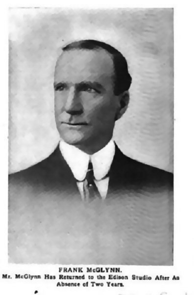 Actor Frank McGlynn ca. 1913